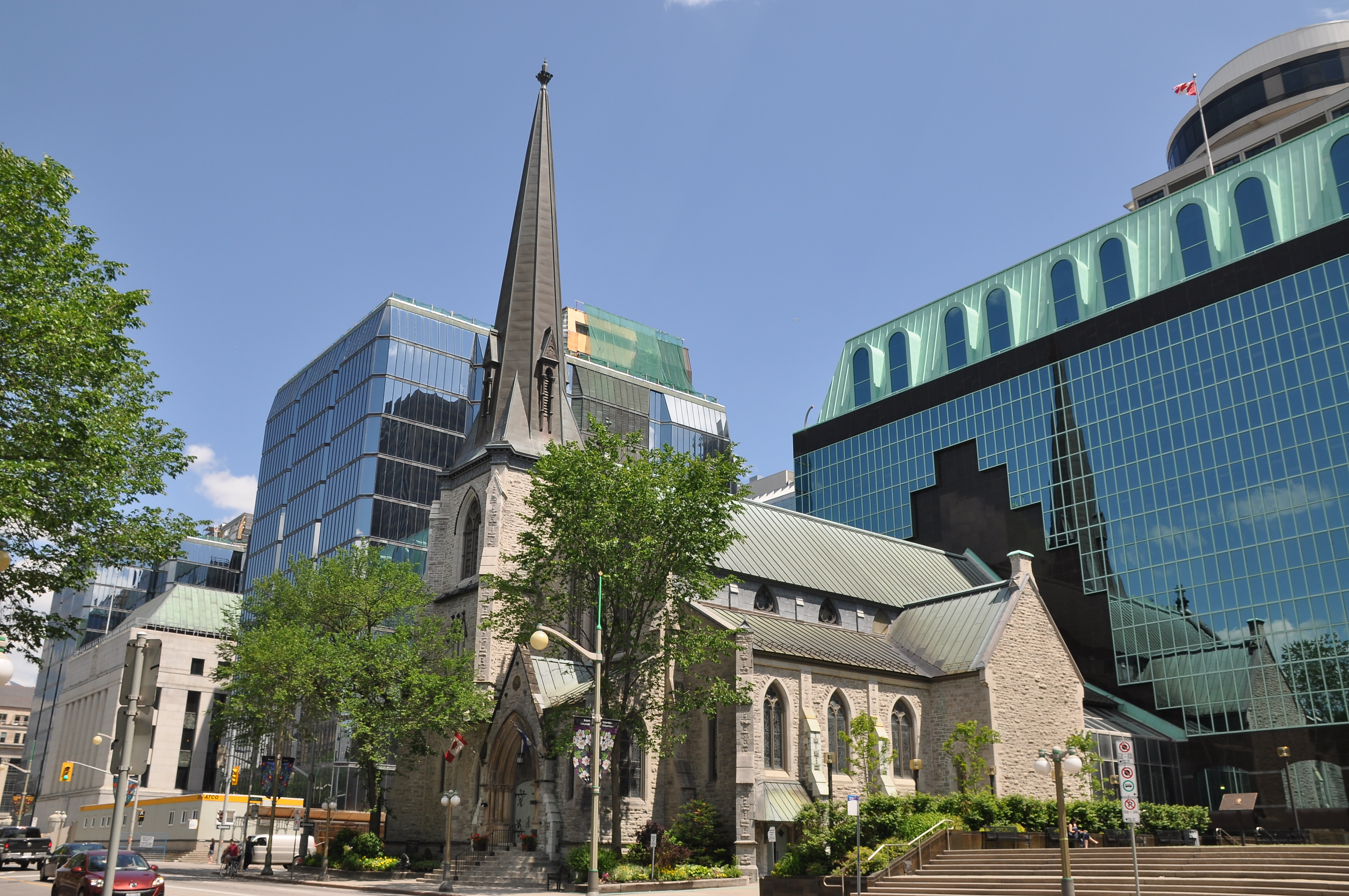 This is a full (though far) side view of the St. Andrew's Church. St. Andrews is Ottawa's oldest Protestant Presbyterian Church in Canada congregation, with the original church opening in 1828. Nicholas Sparks donated land in 1827, which permitted the construction in 1828 of what became the St. Andrew's Presbyterian Church.The church was founded for, and built by, the Scottish and Irish labourers who were constructing the Rideau Canal for Montreal's John Redpath and their own Thomas MacKay. The location on the cross between Ottawa's Queen's Street and Wellington Street was purchased for 200 Pounds Sterling and the church was built during lulls in the construction of the canal.(Ottawa, Canada, June 2015)